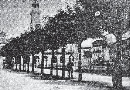 See title